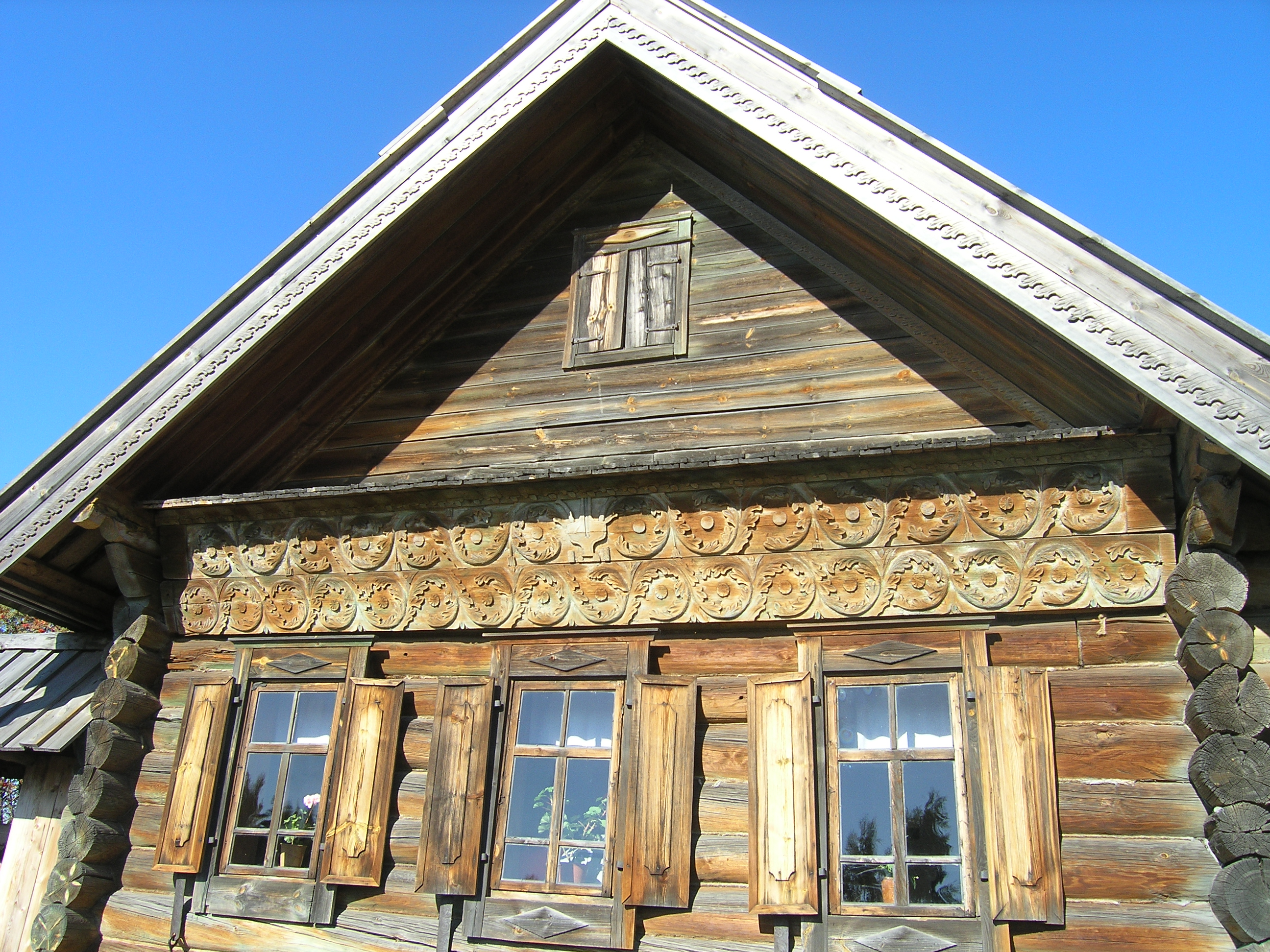 House of peasant of average means. Museum of Wooden Architecture and Peasant Life in Suzdal, Russia.